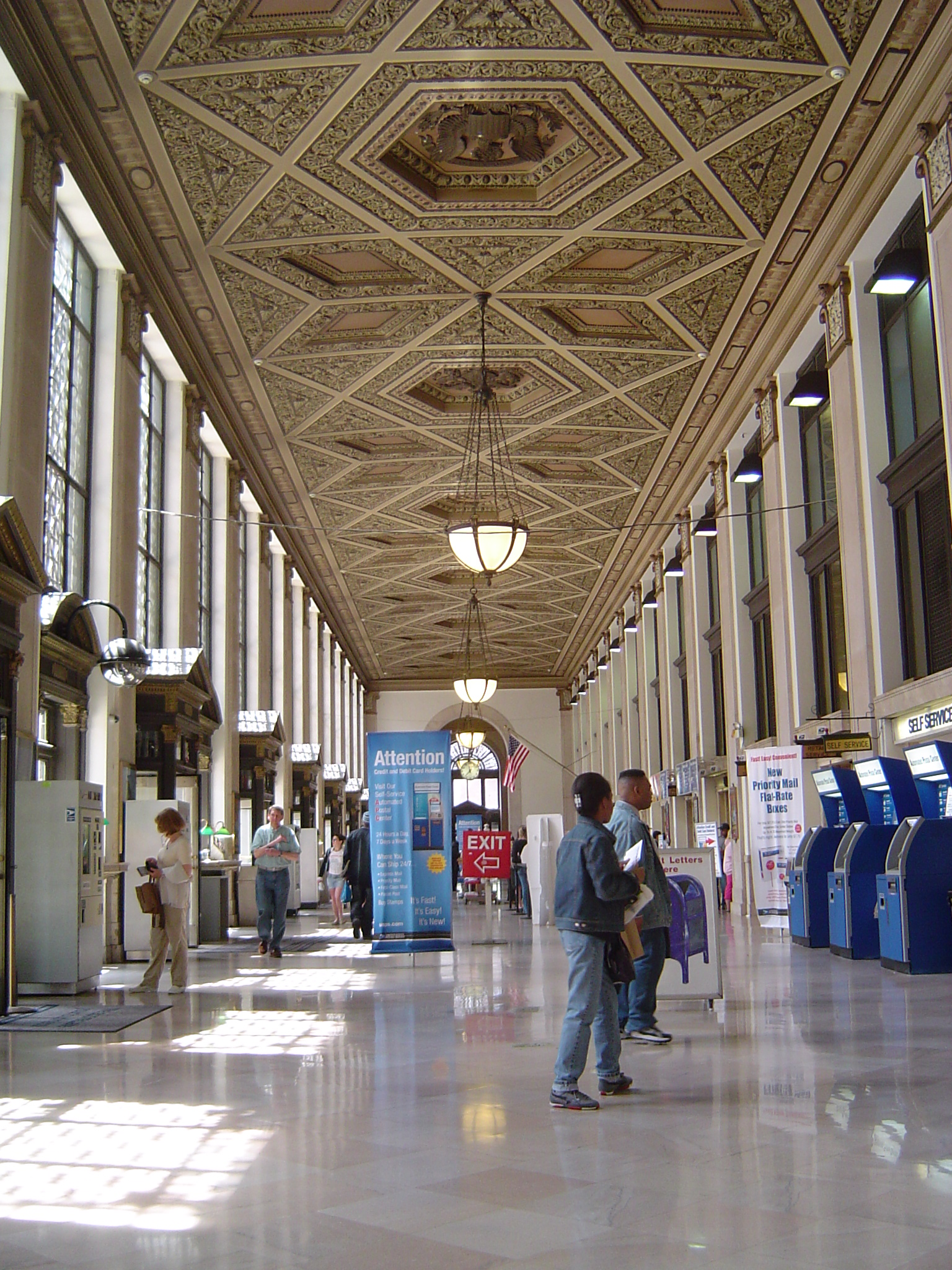 interior of the James Farley Post Office, my own photograph